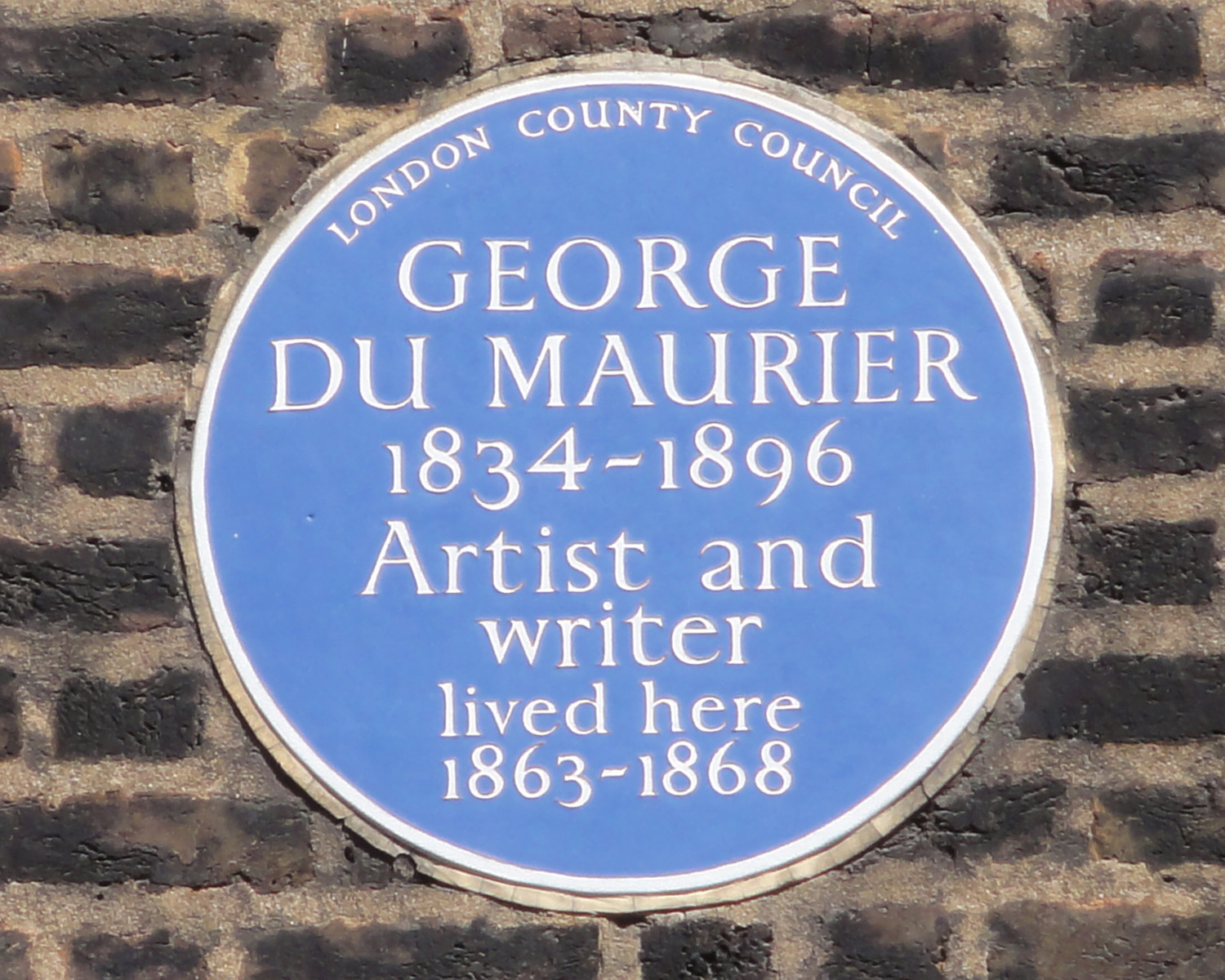 Blue plaque for George du Maurier, cartoonist and author. At 89, Great Russell Street, London.